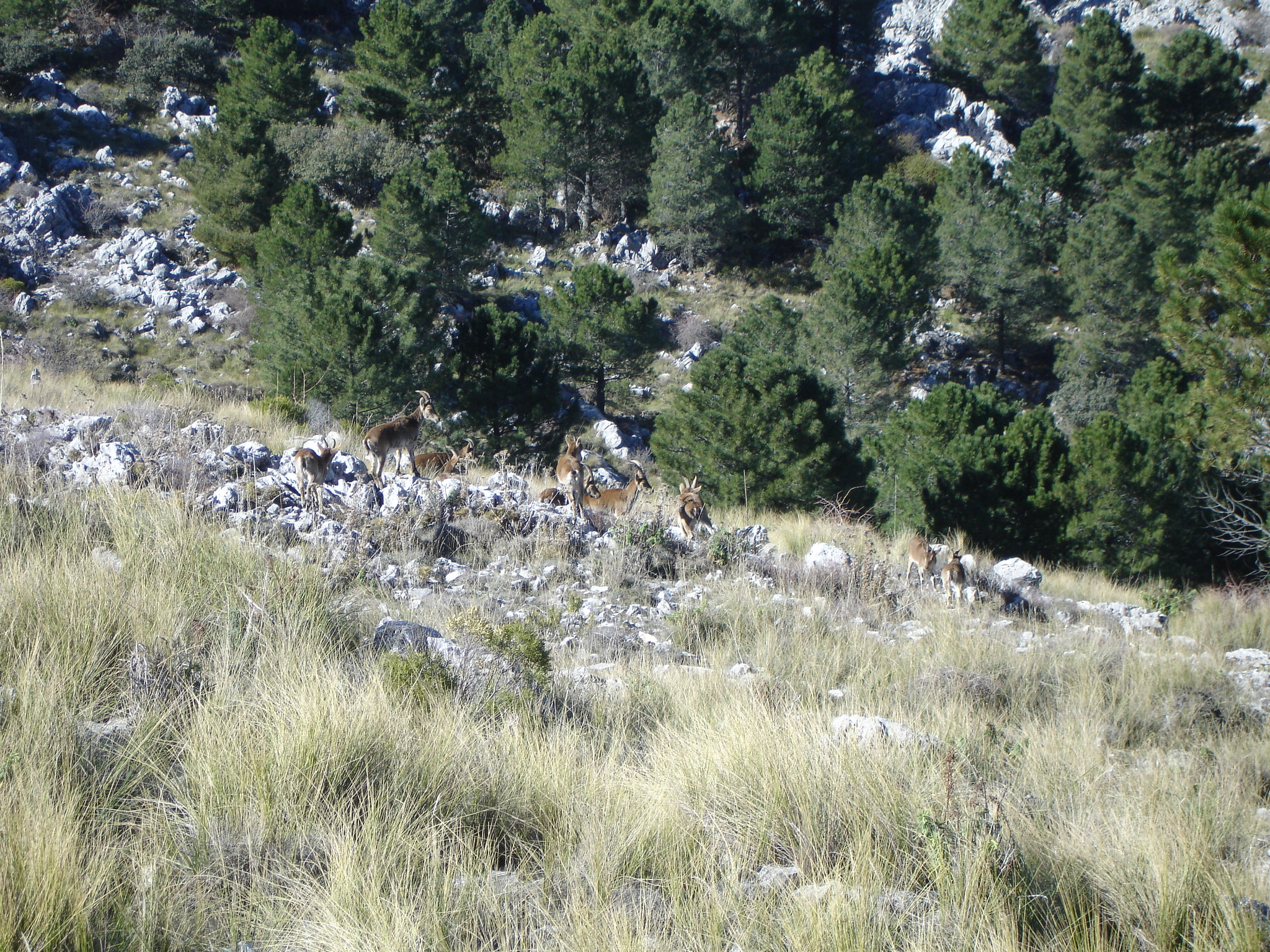 Spanish Ibex at Grazalema, Andalusia (Spain)